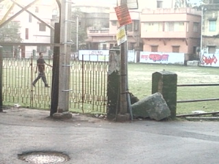 Balak Samity playground in South Kolkata